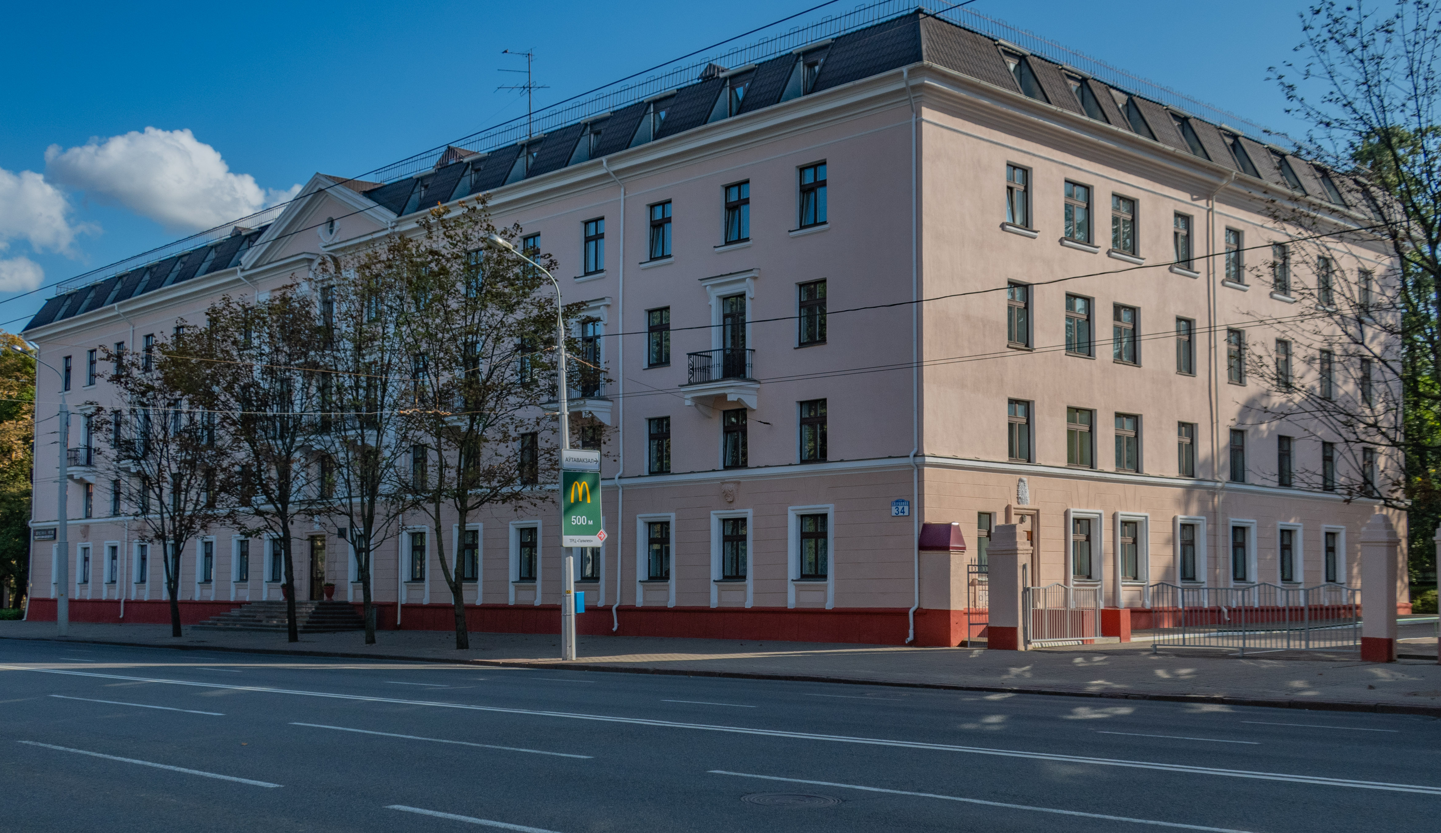 Sviardlova street. Hostel No 1 of the Belarusian State University. Minsk, Belarus